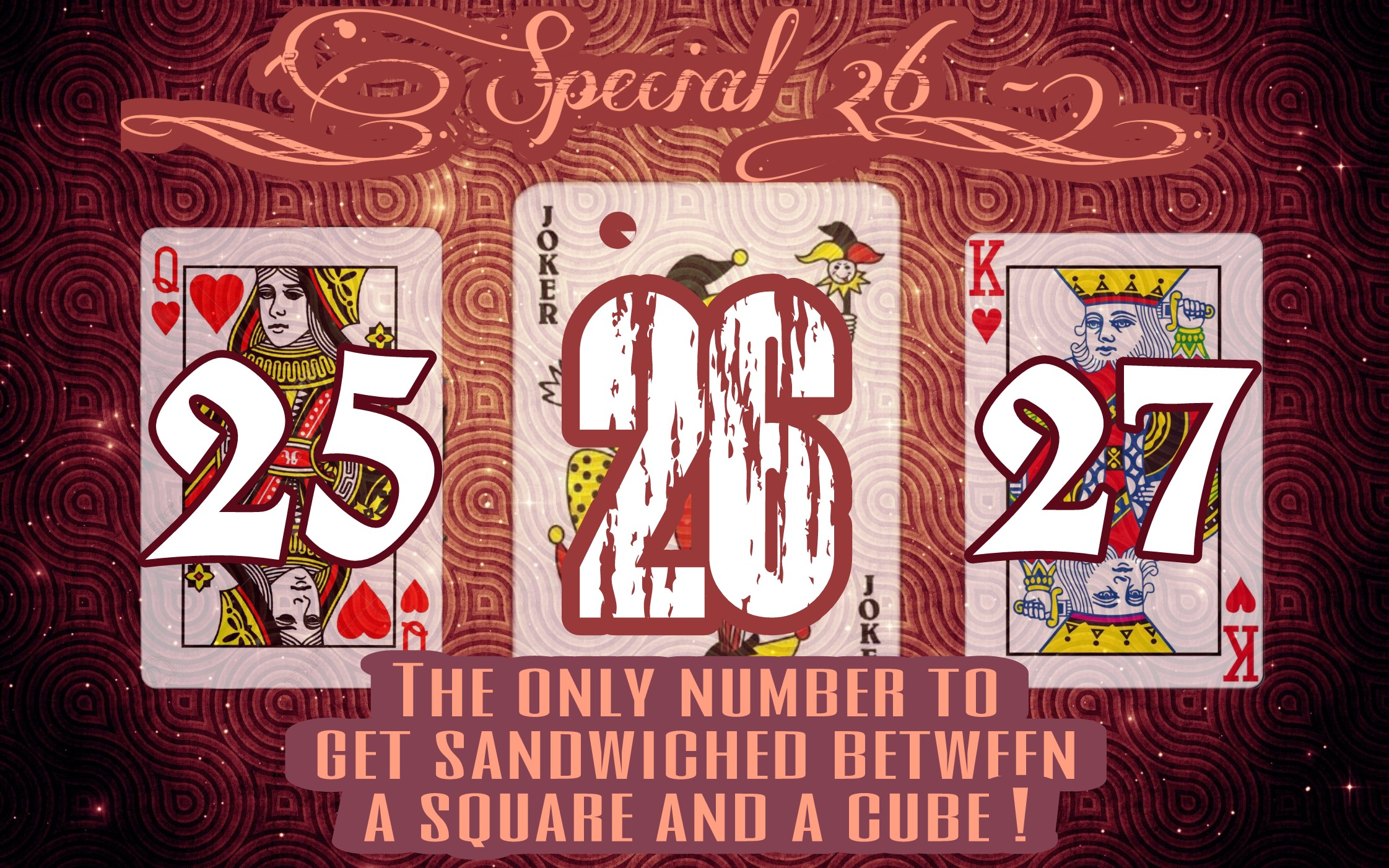 Poster designed to depict the speciality of the number 26